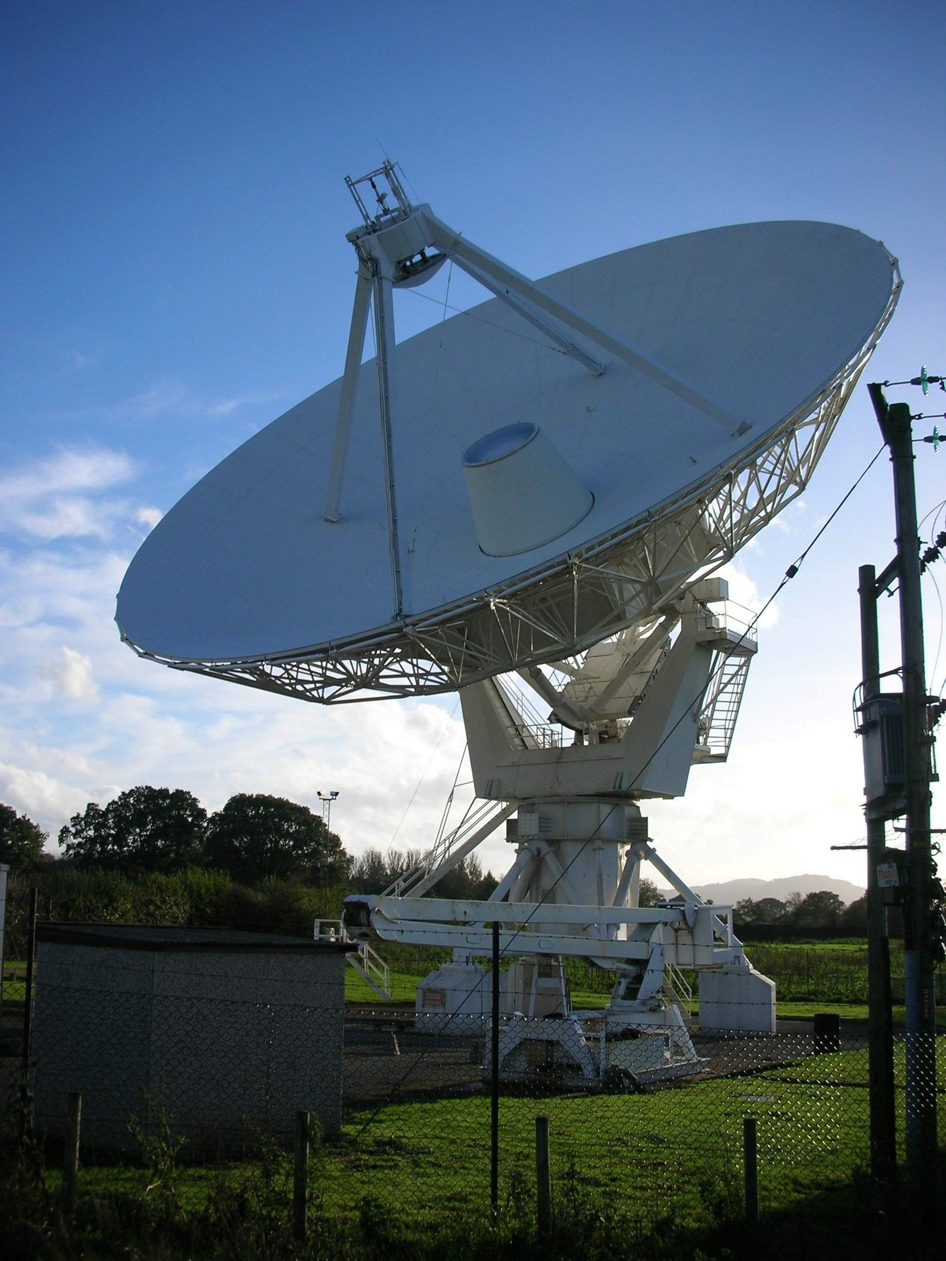 Photograph of Knockin radio telescope, Knockin, Shropshire, England